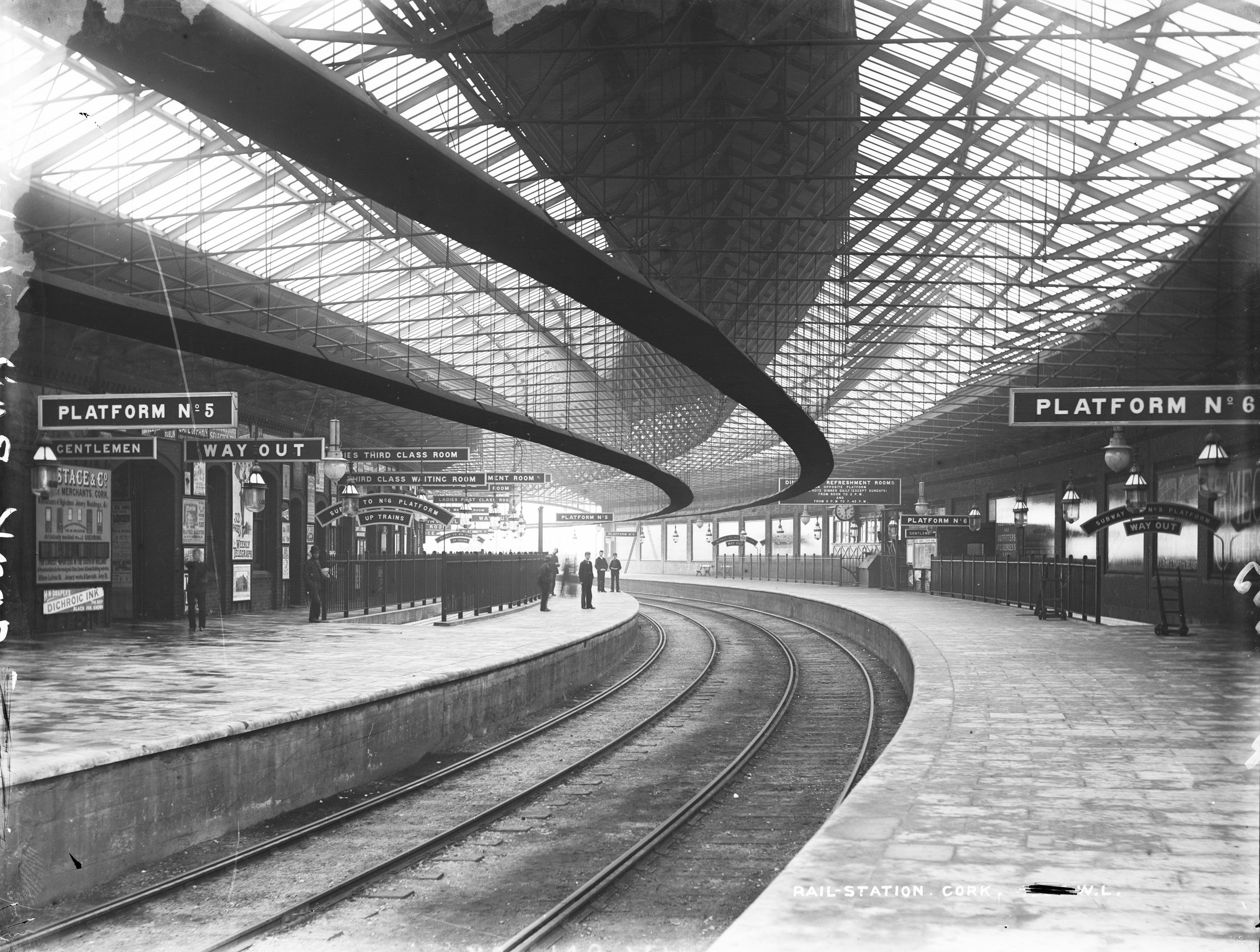 Chose this curvy photo of the railway station in Cork for the bewildering multiplicity of signage. Most scenes in our early photos are blissfully uncluttered, but not this one! Also chose it because it has a clock clearly displaying the time (like a moth to a flame), and the advertising posters are fab (technical term). However, think the adverts contain a first on our Flickr stream, unless of course you know different - Earth Closets! Also wonder what happened ladies who got confused or were short-sighted and wandered into the Ladies First Class Room rather than Ladies Third Class Room? Date: After 2 February 1893 NLI Ref.: L_NS_00149